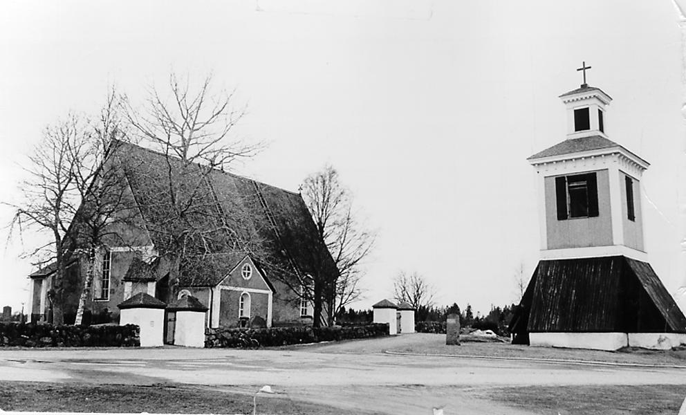 Church of Bygdeå